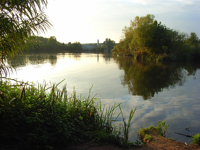 Former gravel pit, Sonning Looking across to the Lafarge concrete works.